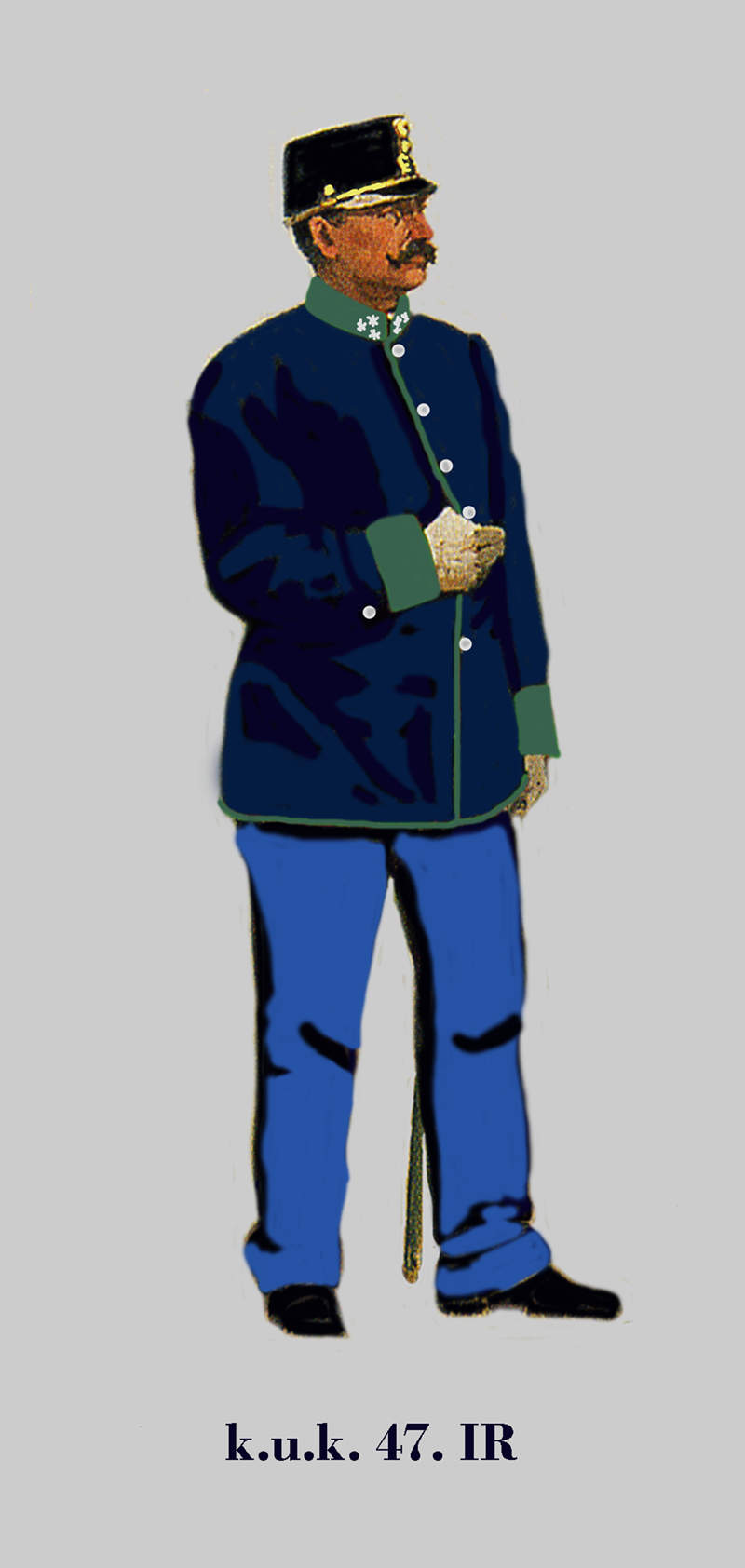 Captain of the Austria-Hungarian (k.u.k.). 47th german Infantry Regiment in Service dress 1914